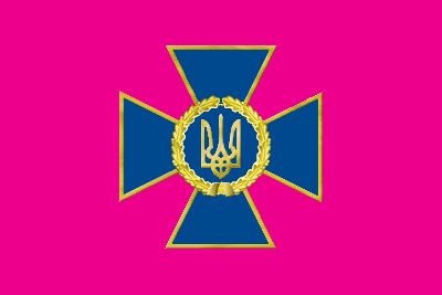 Flag of the Security Service of Ukraine